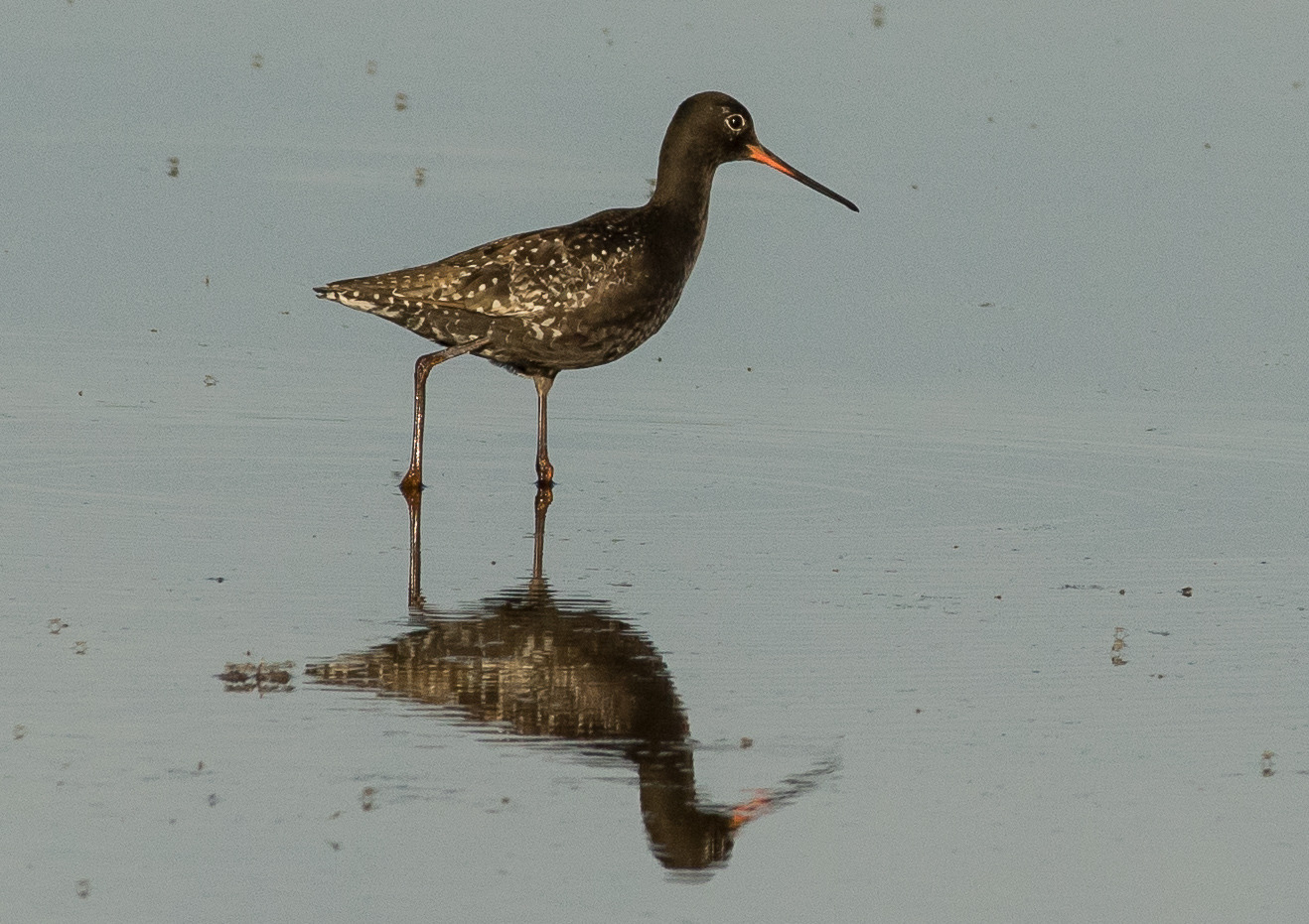 Spotted redshank - breeding plumage, lake Neusiedl, Austria